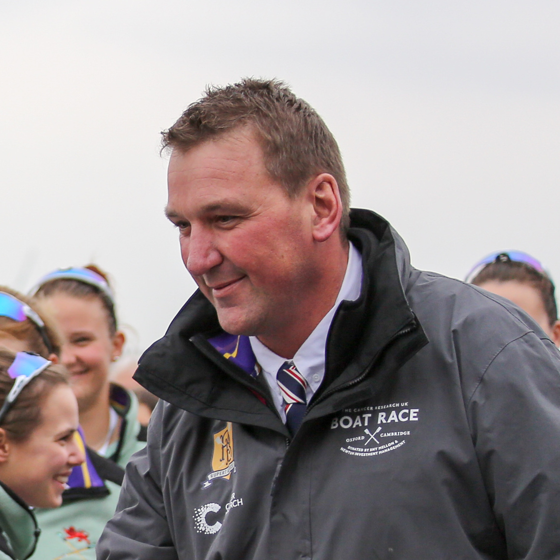 Matthew Pinsent The Cancer Research UK Boat Race 2018 - Women's Blues Race - Coin Toss